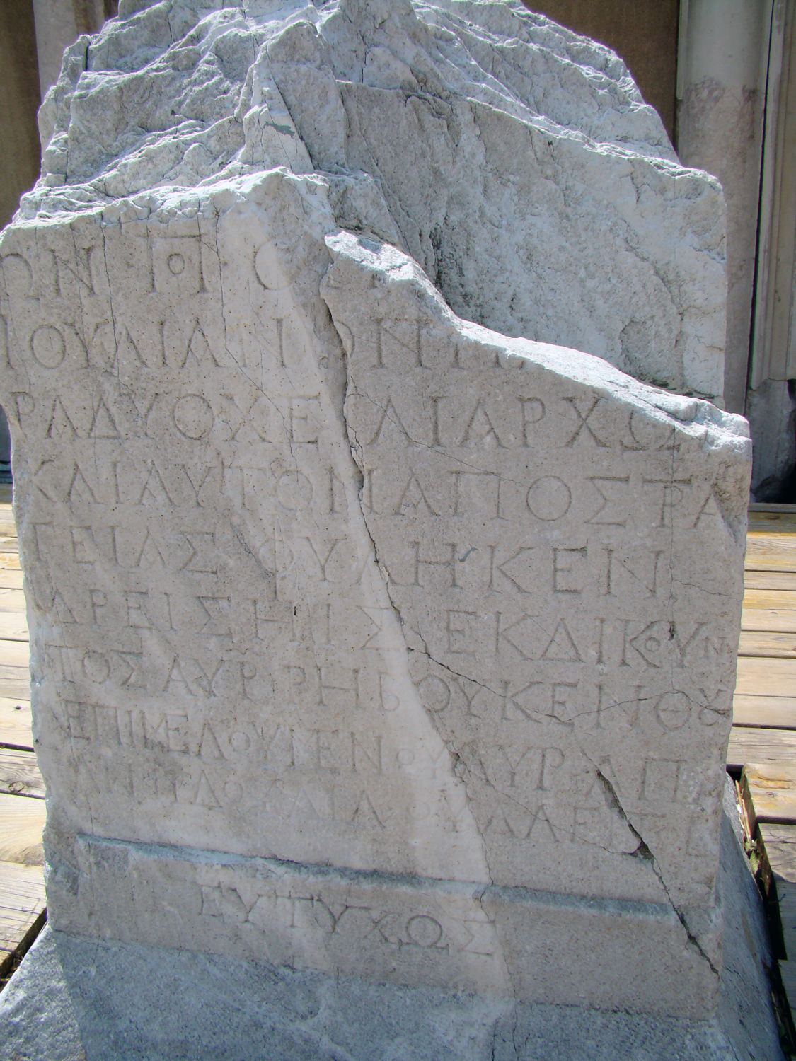 Stele with Greek inscription from Plovdiv Antique Theater